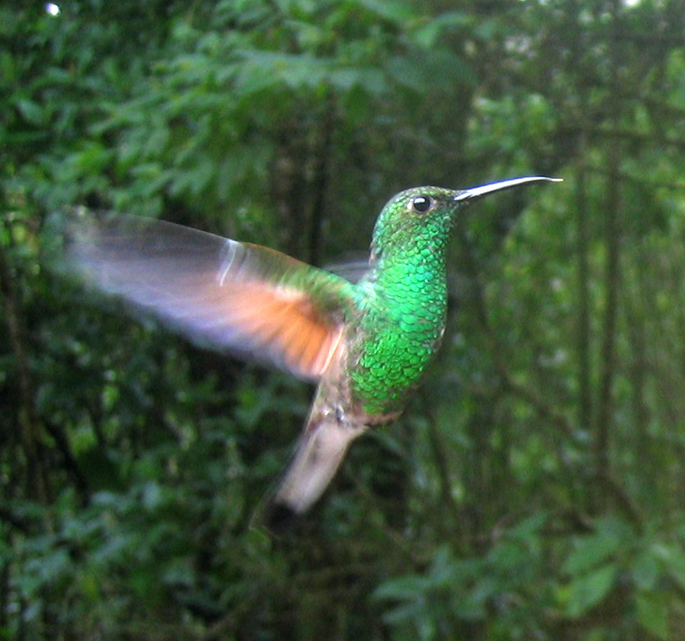 A male Stripe-tailed Hummingbird (Eupherusa eximia) from near Santa Elena, Costa Rica. Originally identified as a Buff-tailed Coronet. See discussions.